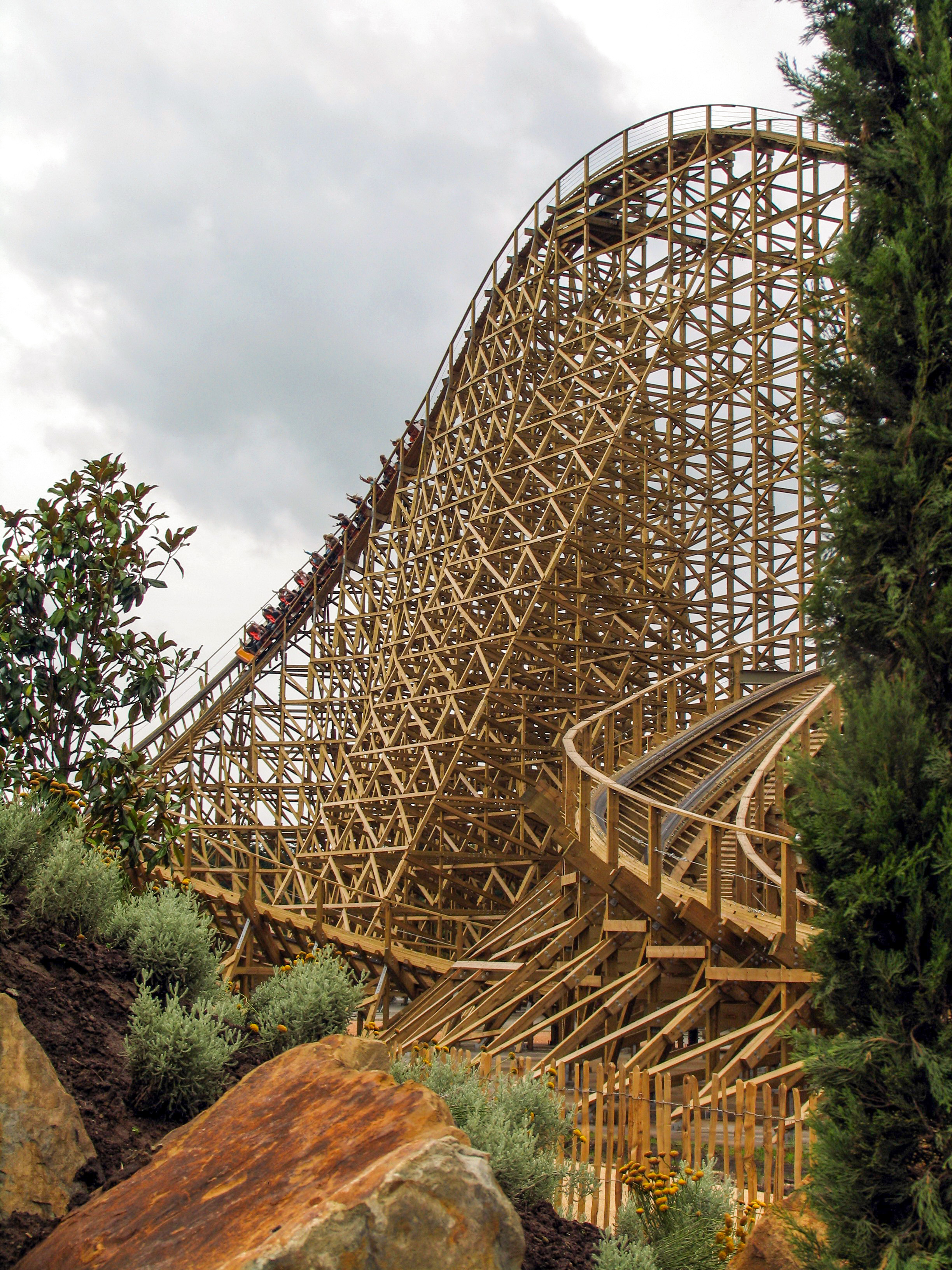 Wooden roller coaster Troy at Toverland, Netherlands on opening day, 29th of June 2007